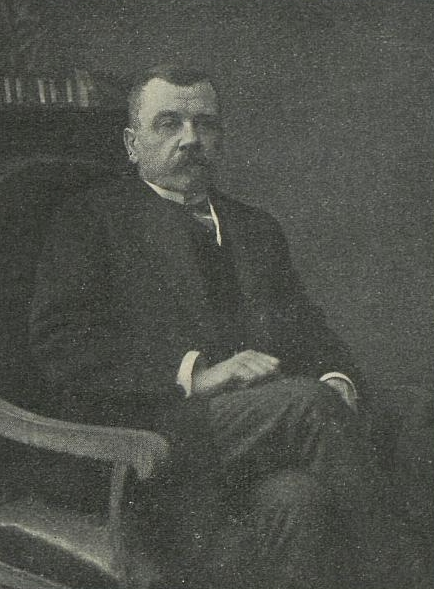 Sergey Veber